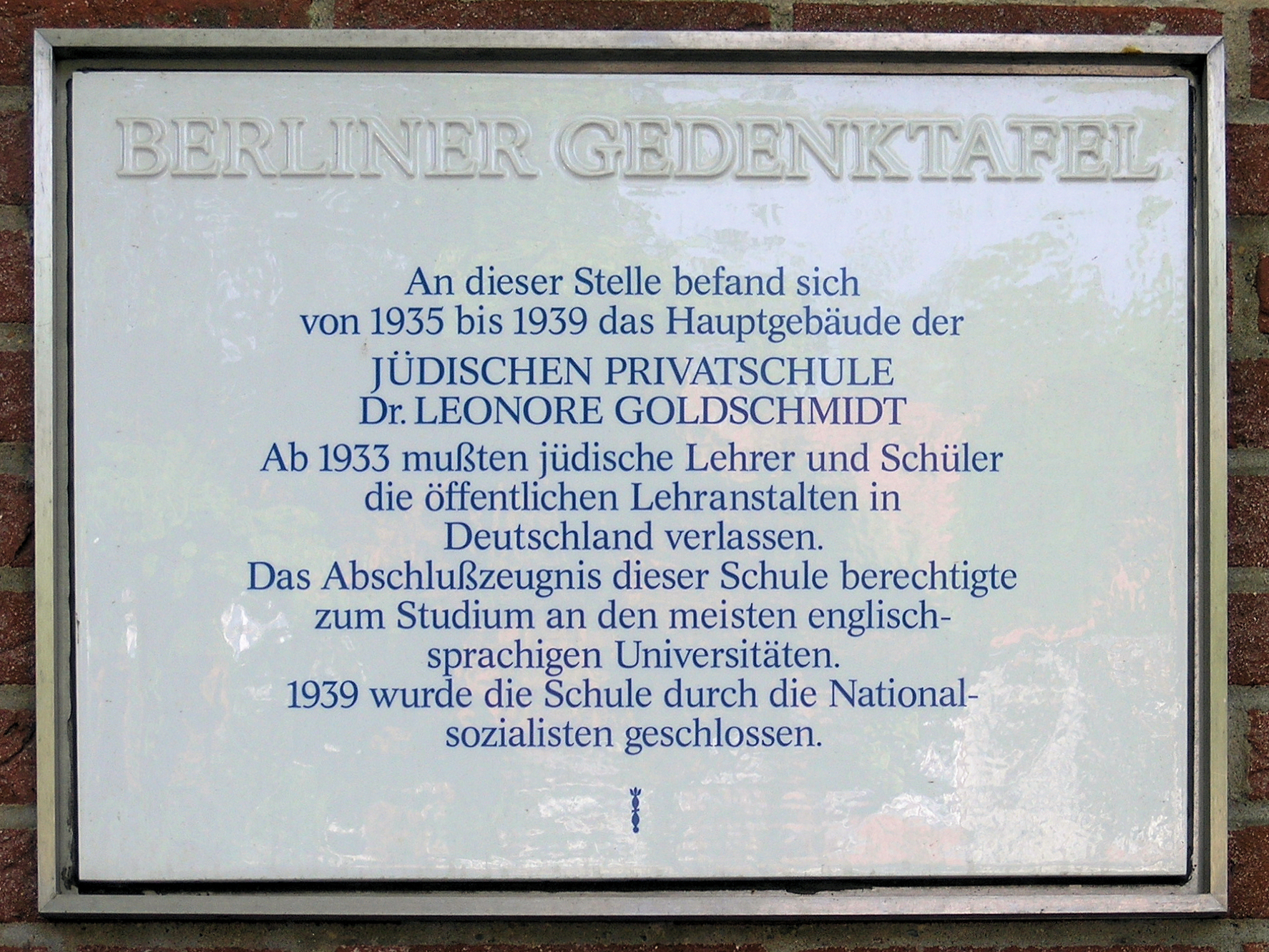 Berlin memorial plaque, Leonore Goldschmidt, Hohenzollerndamm 110a, Berlin-Schmargendorf, Germany